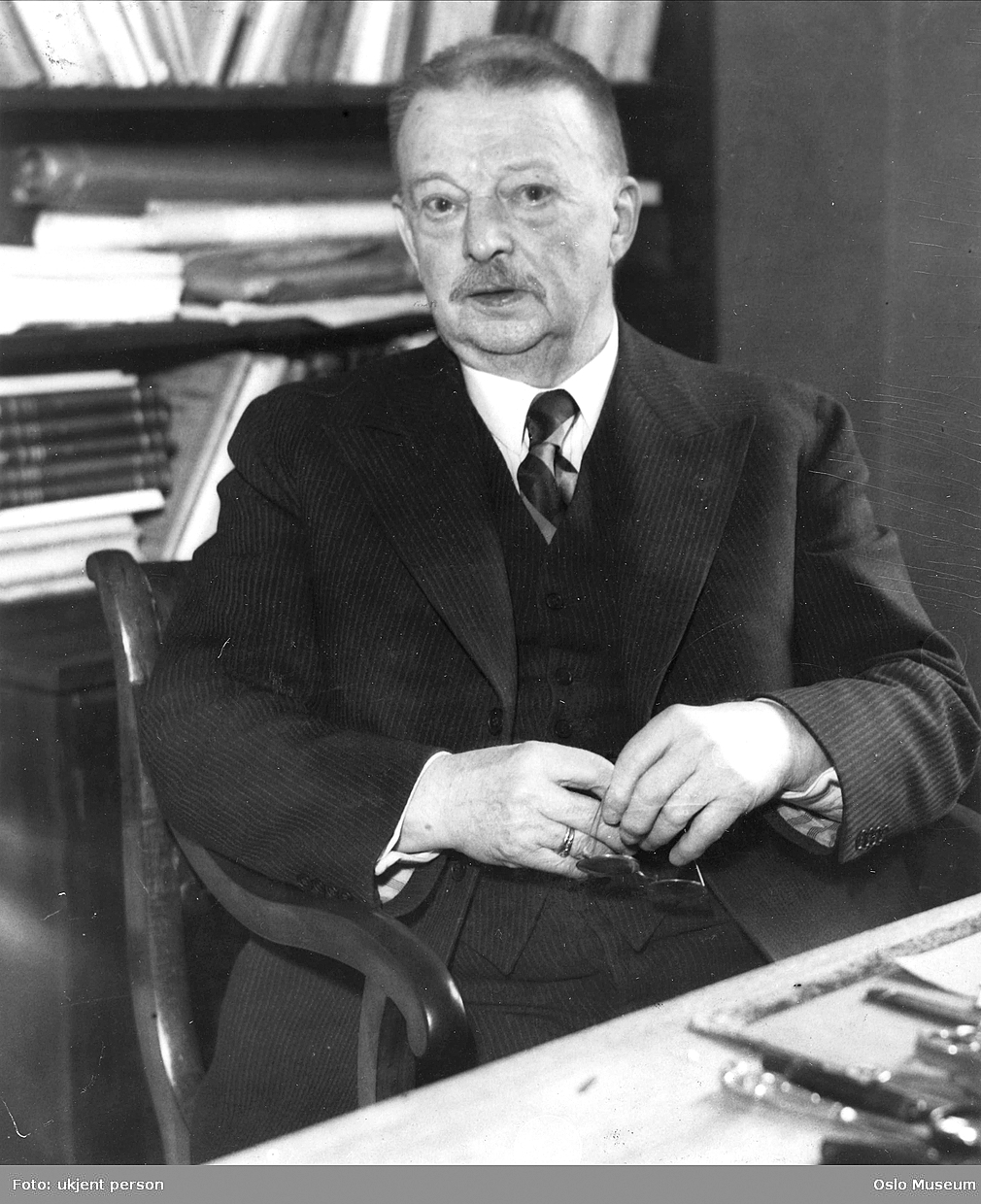 Vilhelm Dybwad, Norwegian advocate and writer (1863-1950)